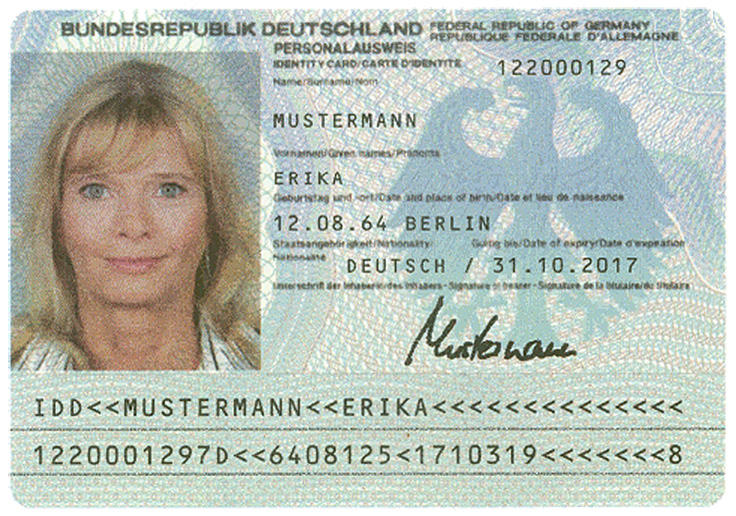 Specimen of a German identity card, front.